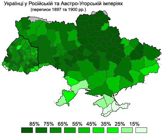 Ukrainians in ukrainian parts of Russian and Austro-Hungarian empires, 1897 and 1900 censuses